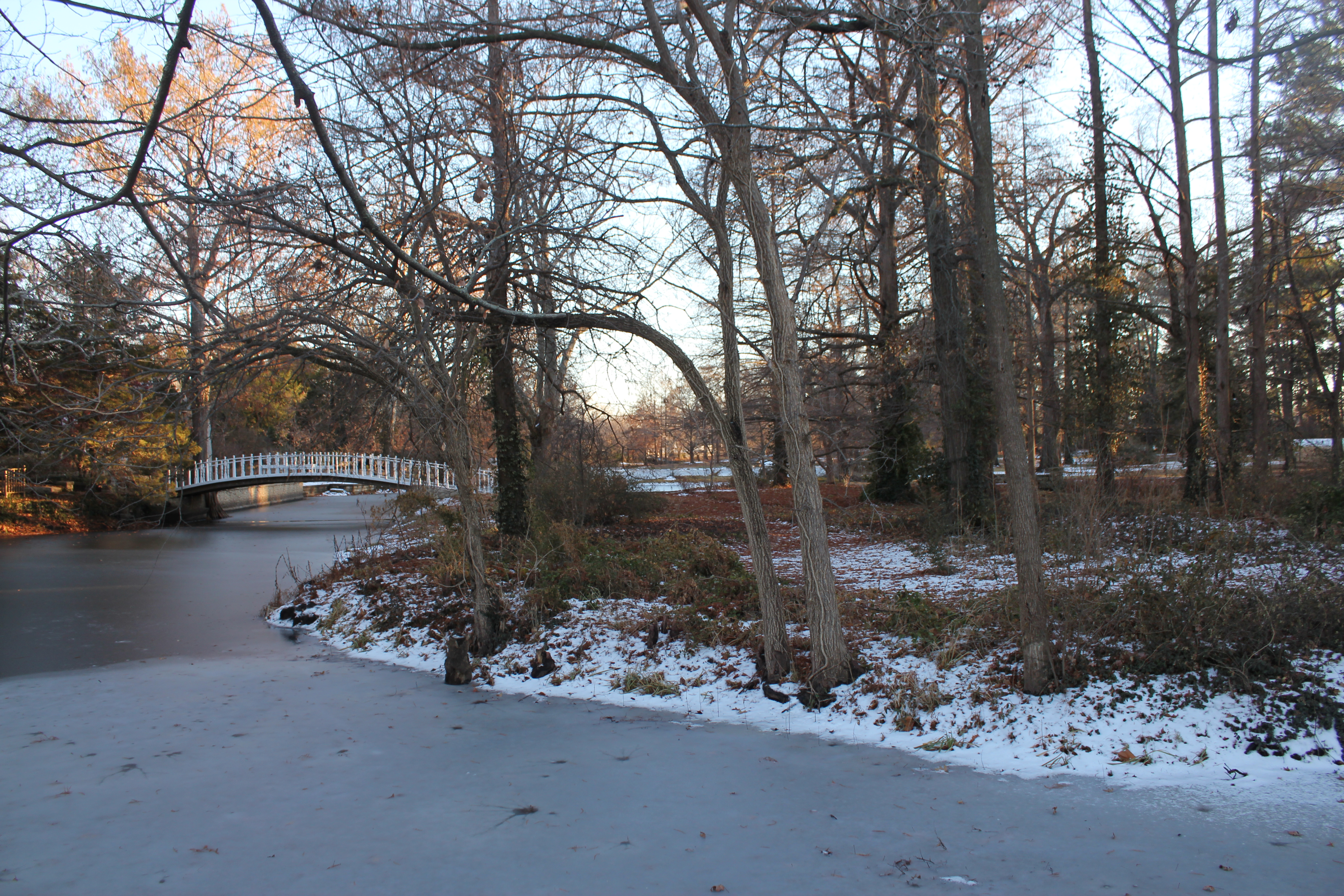 The Bartlett Arboretum in Belle Plaine, Kansas. The property is listed on the National Register of Historic Places.